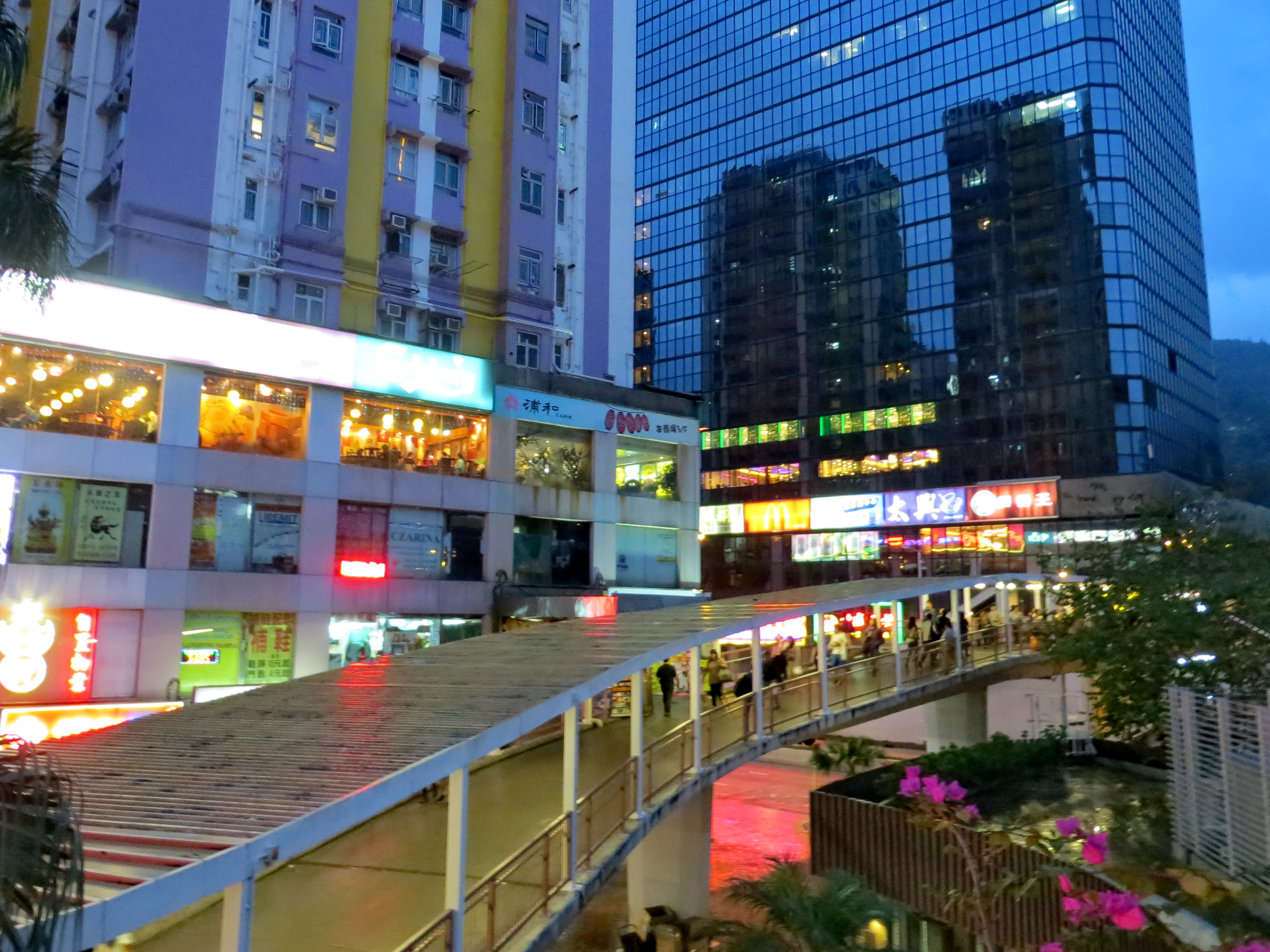 Lik Sang Plaza and Tsuen Wan Footbridge Network, Tsuen Wan, New Territories, Hong Kong.